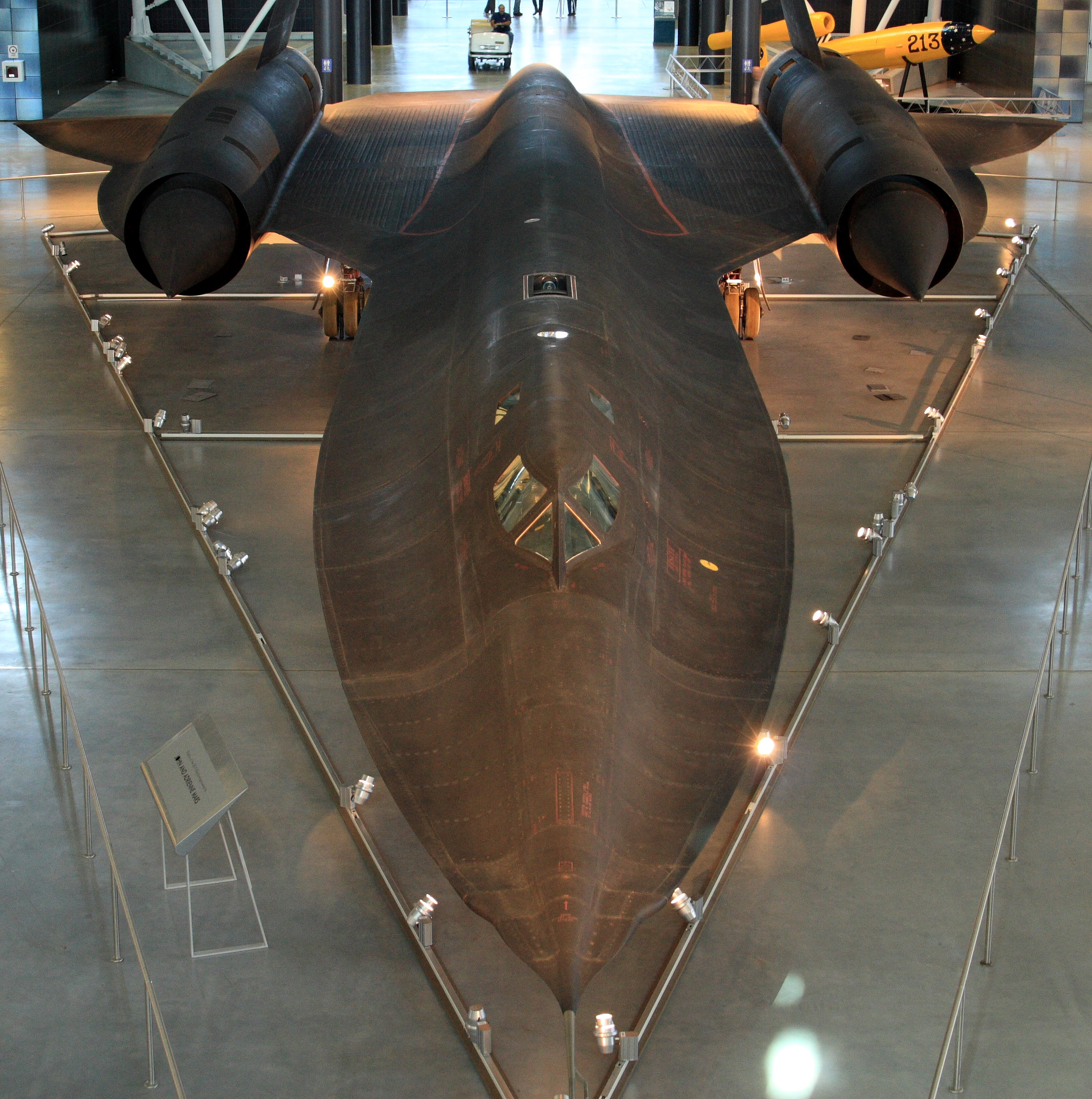 I took these photos at the Udvar-Hazy Center - it's the new Smithsonian Air and Space Museum near Dulles Airport, Manassas, Virginia in August 2008.